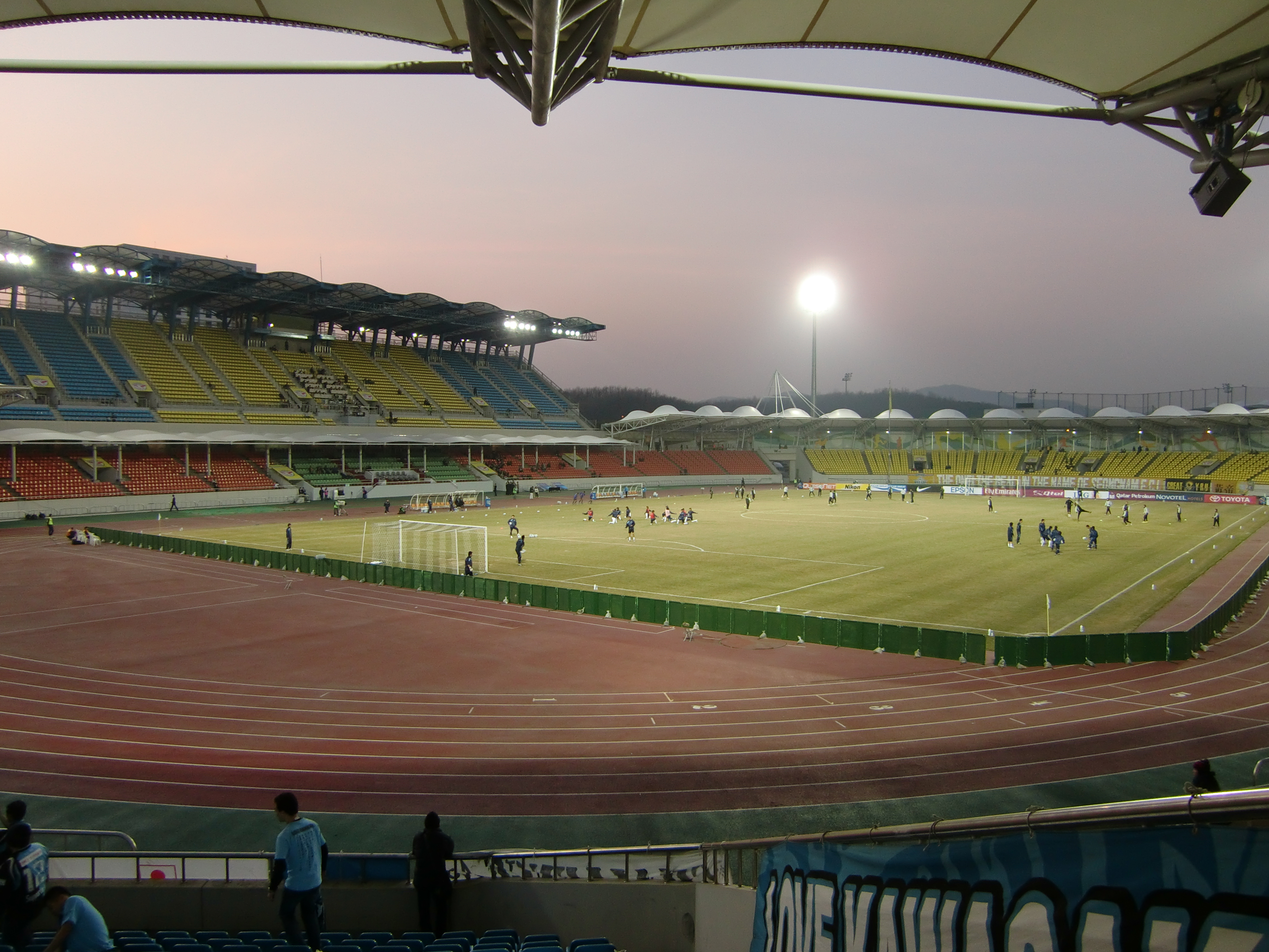 Tanchon Sports Complex. Seongnam-si,South-Korea.